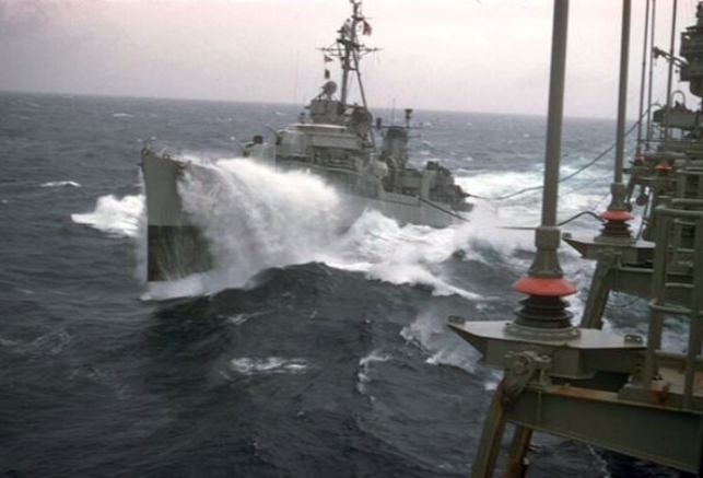 The U.S. Navy Fletcher-class destroyer USS Sigourney (DD-643) refueling from the aircraft carrier USS Franklin D. Roosevelt (CVA-42) in heavy weather in the Mediterranean Sea.